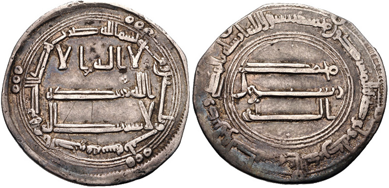 ISLAMIC, 'Abbasid Caliphate. temp. al-Ma'mun. AH 199-218 / AD 813-833. AR Dirhem (25mm, 3.19 g, 3h). Medinat Isbahan mint. Dated AH 205 (AD 820/1). Album 223.5. Good VF, toned.